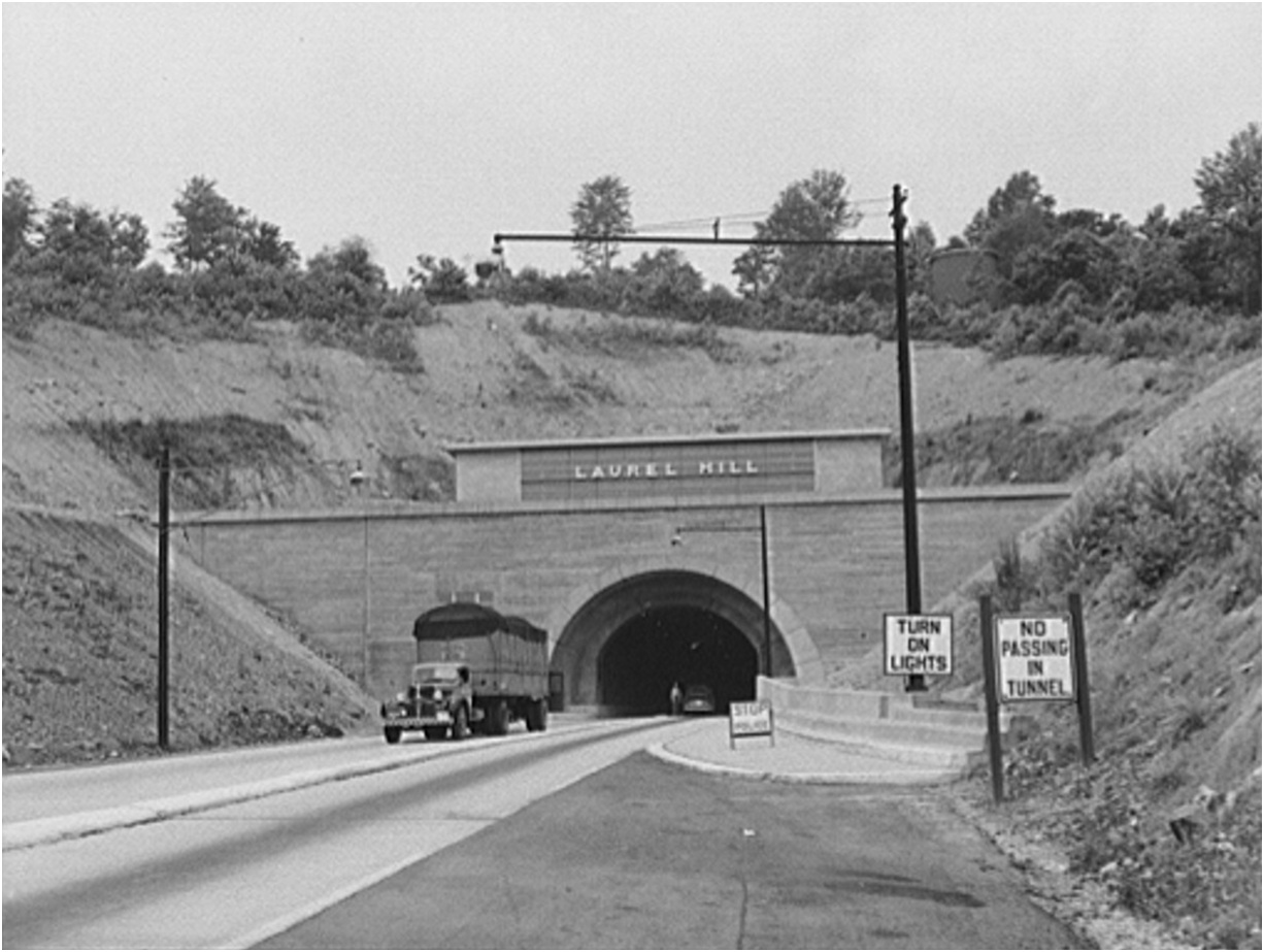 The Laurel Hill Tunnel on the Pennsylvania Turnpike. Taken by an employee of the Office of War Information.